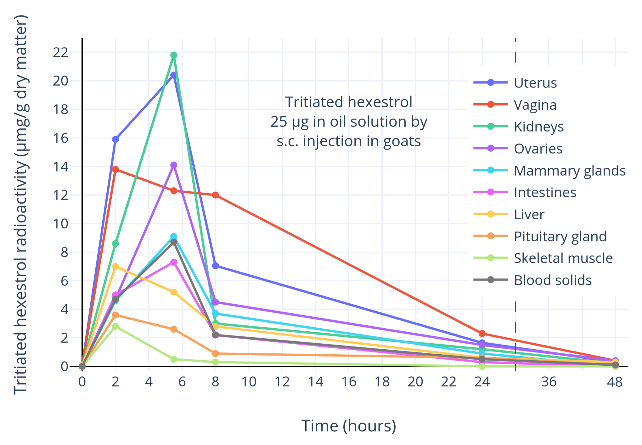 Distribution of hexestrol radioactivity (μmg/g dry matter) in blood and tissues after a single subcutaneous injection of a physiological 25-μg dose of tritium-labeled hexestrol in peanut oil solution in five juvenile female goats. Points are one animal each. The adrenal glands had 10% of the radioactivity concentration of the endometrium and tissues with lower concentration of radioactivity than this are not displayed. These tissues included skin, salivary glands, thymus, heart, spleen, pancreas, skeletal muscle, brain, bone, and perinephric fat. Source of the values: (August 1959). "Selective accumulation of tritium-labelled hexoestrol by the reproductive organs of immature female goats and sheep". Biochem. J. 72: 673–82. PMID 13828338. PMC: 1196992.